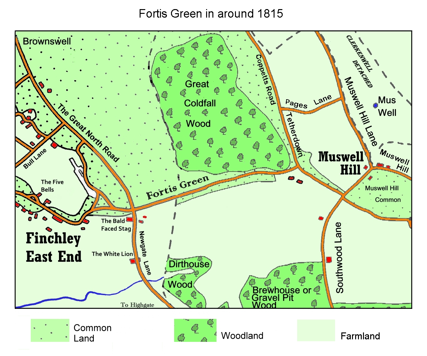 This is a map of Fortis Green in north London in about 1815. The map has been drawn by me from other maps of the time.